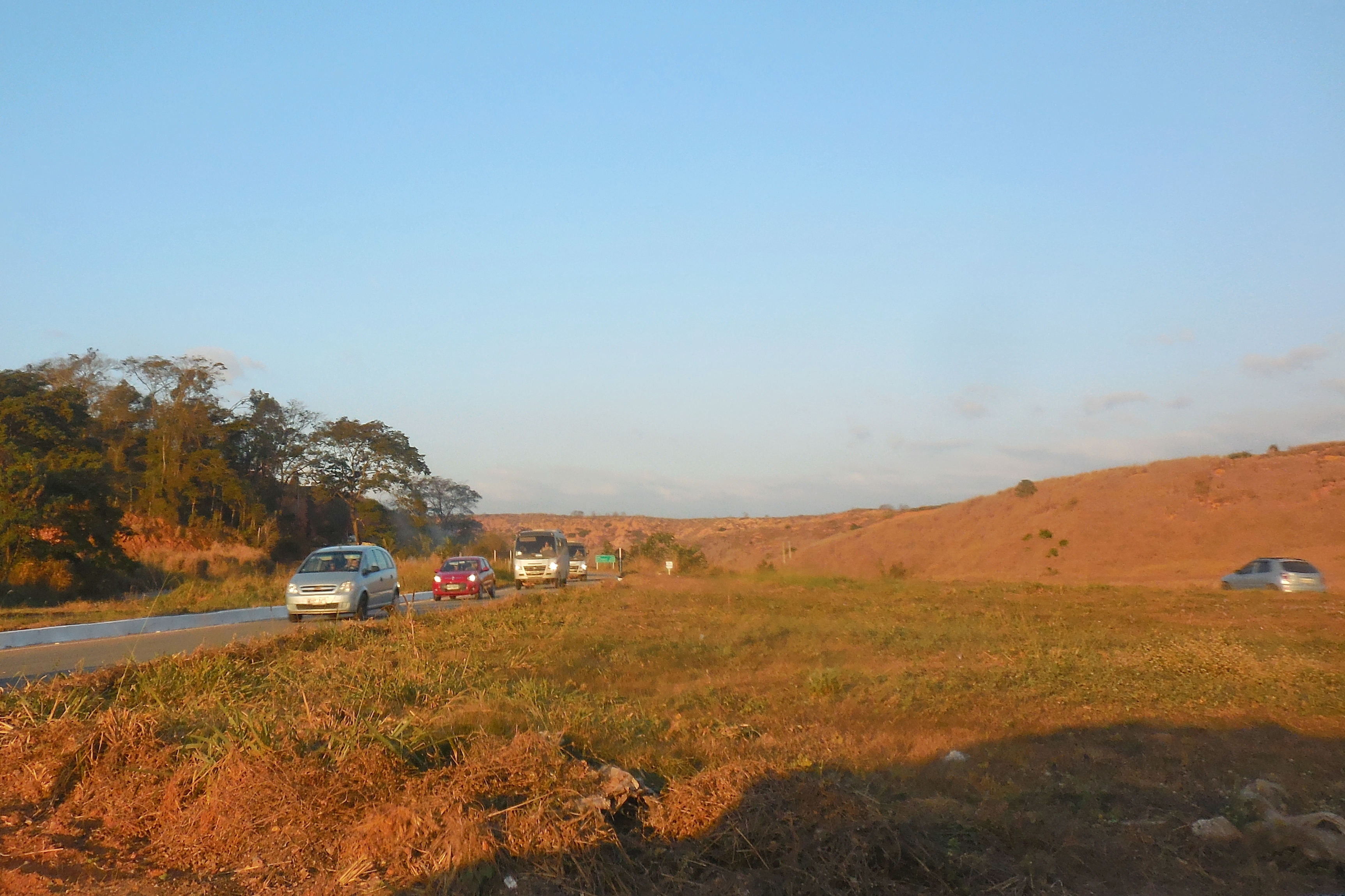 BR-458 in the access to LMG-759, in Caratinga, Minas Gerais, Brazil.